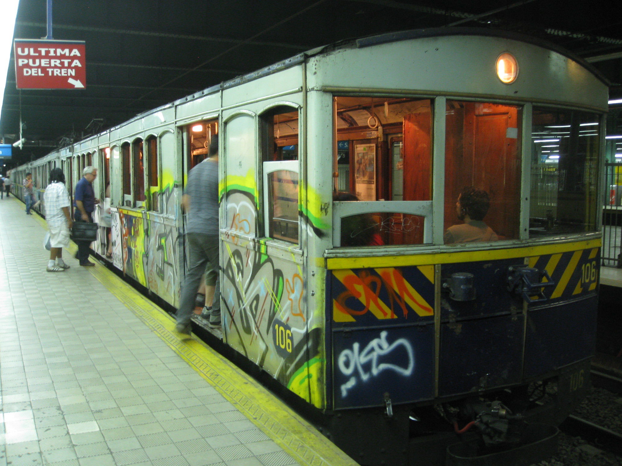 Fleets on subway line A in Buenos Aires.